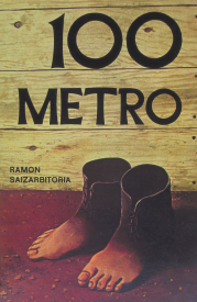 Ehun metro book cover